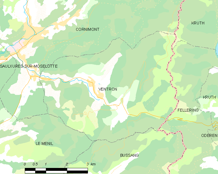 Map of French municipality Ventron